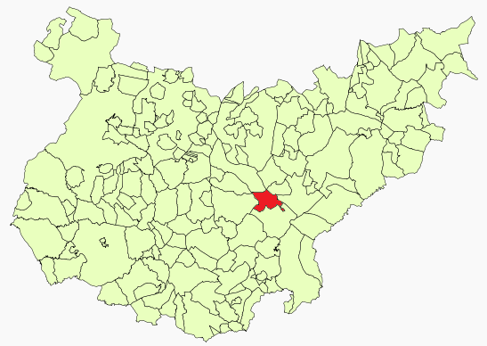 Retamal de Llerena